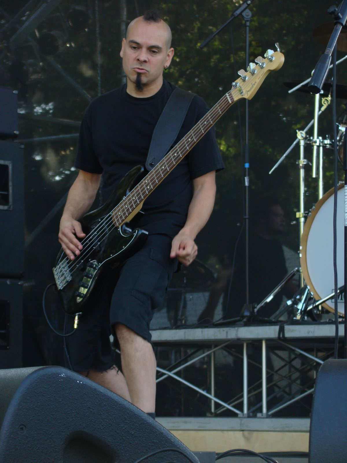 Joey Vera, bass player in Fates Warning